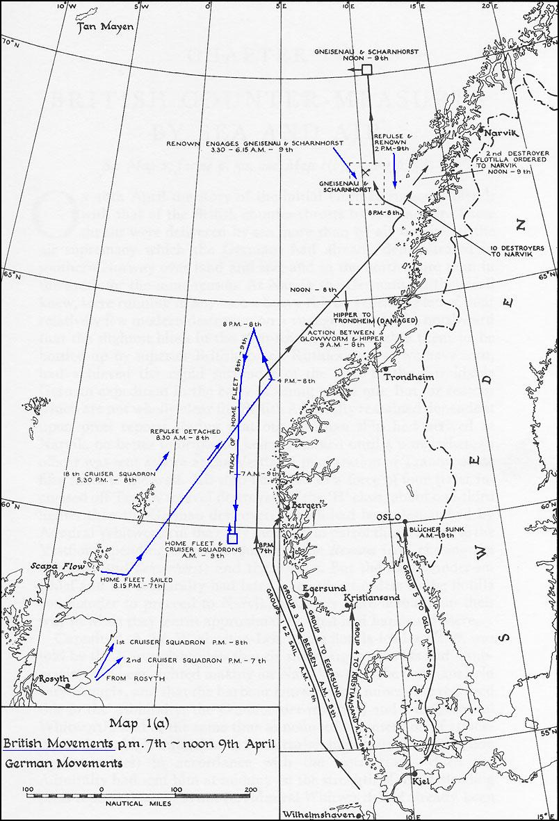 Image taken from HyperWar. Color added by uploader for clarity.